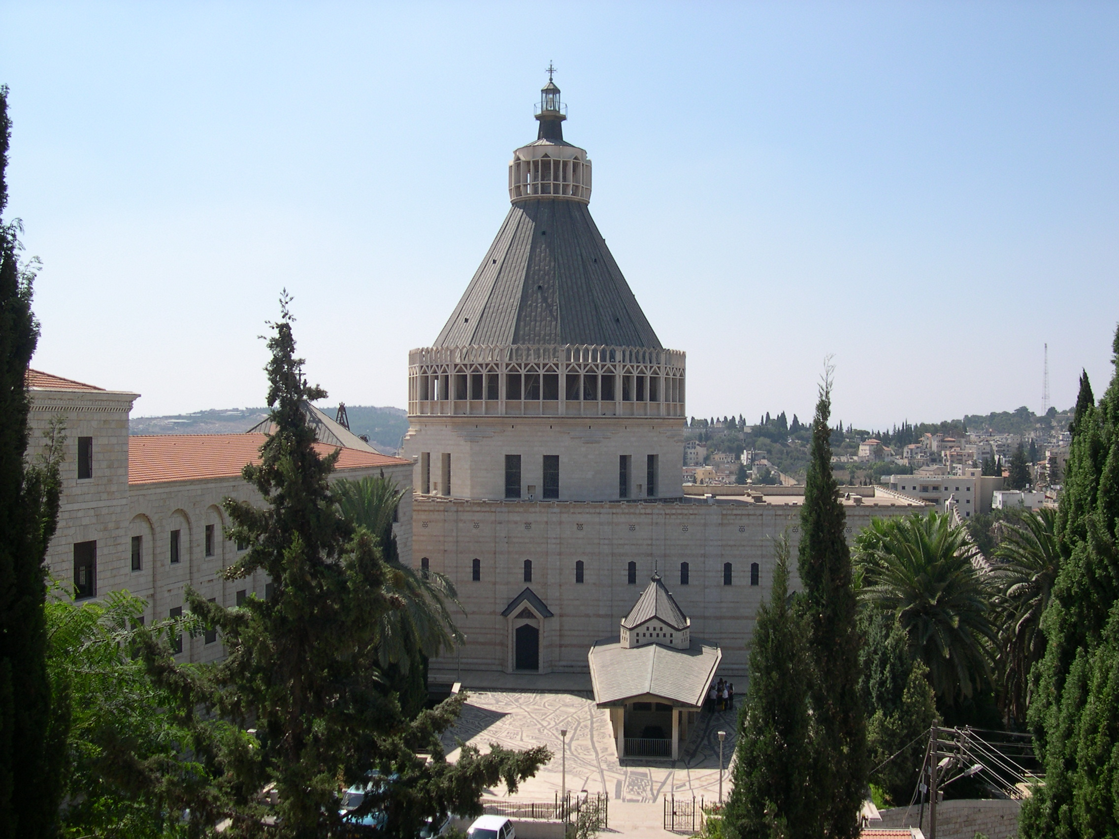 Church_of_the_Annunciation in Nazareth, Israel